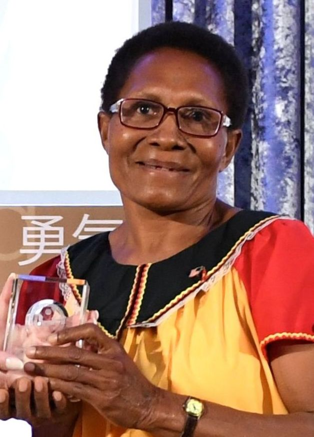 Veronica Simogun at International Women of Courage Awards 2017 "Veronica Tamar Simogun is currently the Director of the Family for Change Association based in Wewak, East Sepik Province, Papua New Guinea. Ms. Simogun was born in Urip village in the Boykin/Dagua area of Wewak, East Sepik Province in 1962. She studied at the Civil Aviation Training College and graduated with a Certificate in civil aviation in 1981. She worked with the Department of Civil Aviation for six years before moving back to her home village in 1986 to assist her church and community in the promotion of safe and healthy living. Ms. Simogun has been working to help women affected by violence ever since, funding much of this work herself. She continues to run the Family for Change Association which she founded in 2012. Ms. Simogun's life-long desire has been to see strong communities, where families are happily secure and women and children live free from violence and intimidation. Risking her own safety, she has directly intervened to protect women experiencing gender-based violence. In the face of death threats from the perpetrators of violence, she has helped shelter and relocate victims on multiple occasions." [1]